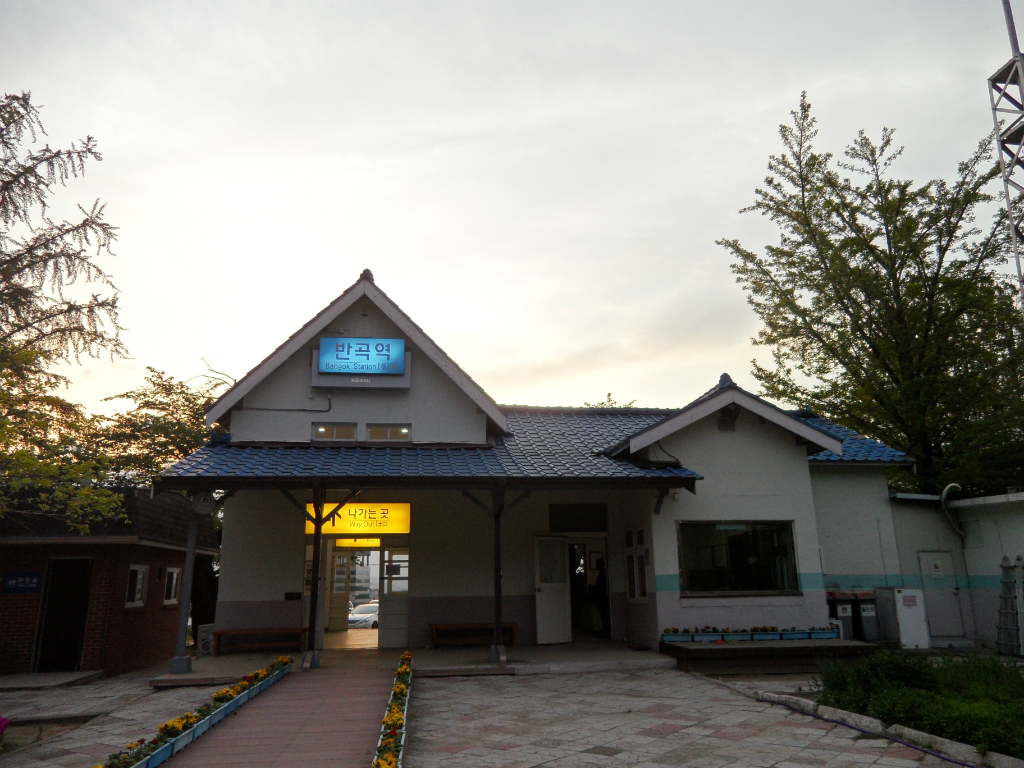 Bangok Station (Wonju)